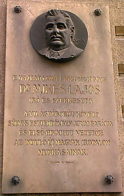 Commemorative plaque of Lajos Mikes, Budapest District XII, Hajnóczy József Street No 15